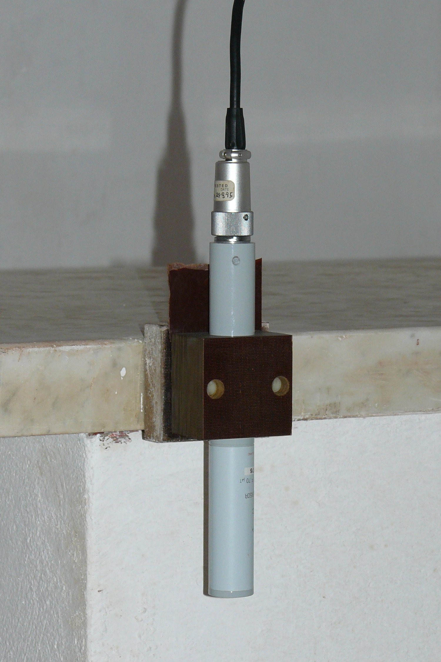 Surlari Geomagnetic Observatory, Three-axis magnetometer Bartington.